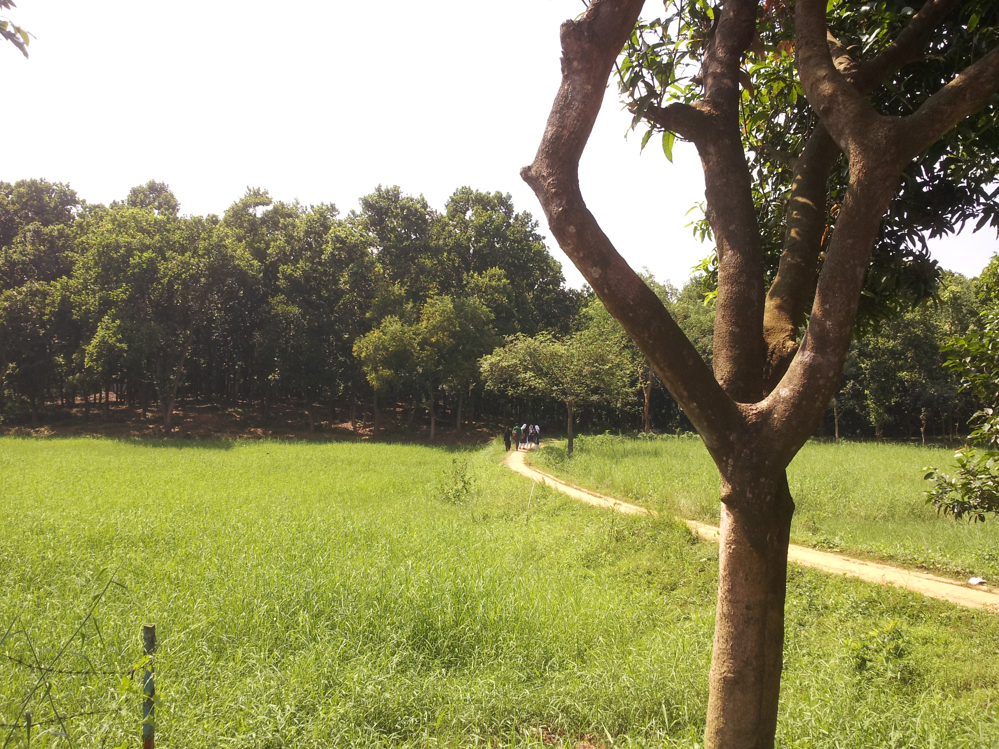 Aranyaloy mini zoo, Savar, Dhaka.